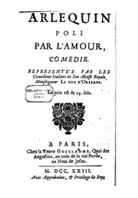 title page from 1723 edition of Arlequin Poli par L'amour